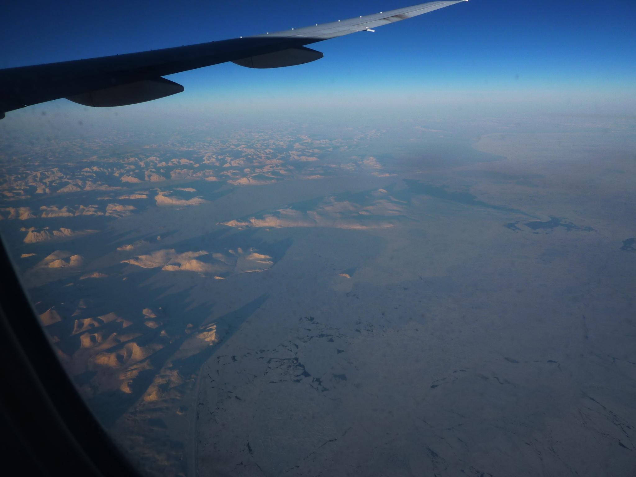 Approaching the coast of Chukotka Peninsula form the Bering Strait. Looking north, with the big Arakamchechen Island in the center the picture. Somewhat smaller Yttygran Island is to the SW of it. A tiny island to the south of Arakamchechen is Nuneangan Island. Photo taken from an AA aircraft on a non-stop ORD-PVG flight